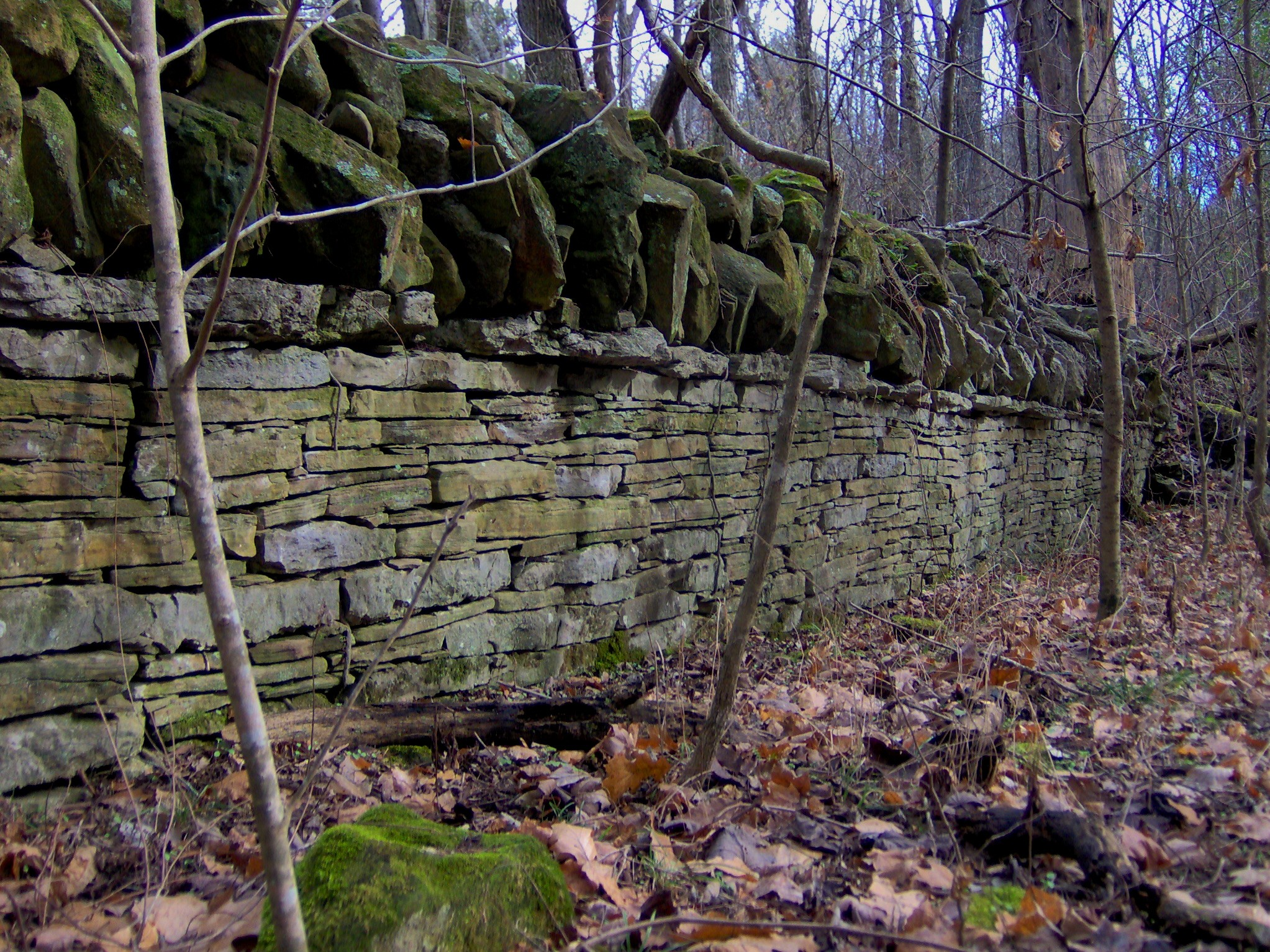 An old property wall at Long Hunter State Park near Nashville, Tennessee, located in the southeastern United States. This wall is visible near the end of the Volunteer Trail.